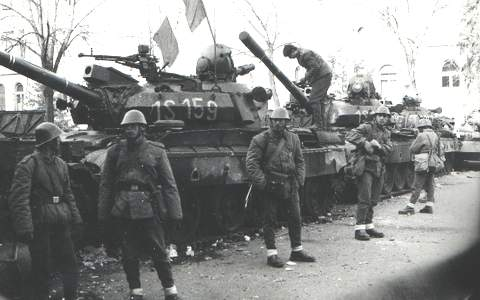 "The Romanian troops marched out, but didn't protect the Hungarians in Tirgu Mures from the Vatra Româneascăs attack in the "Black March" of the year 1990." (cited from the source)